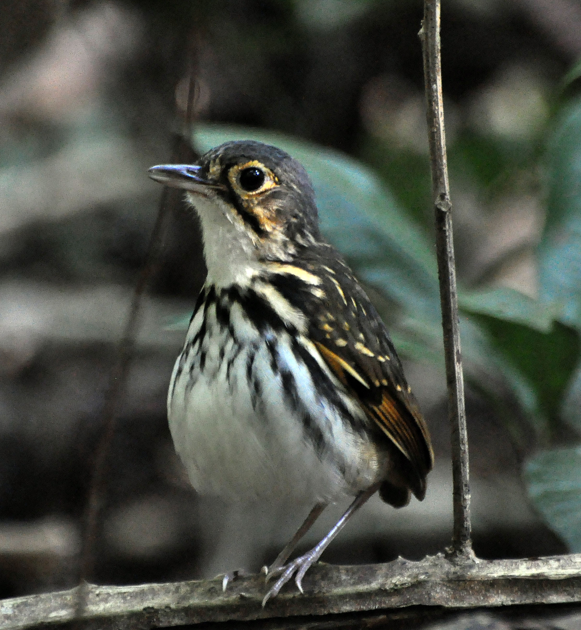 A Streak-chested Antpitta in Carara National Park, Central Pacific Conservation Area, Costa Rica.